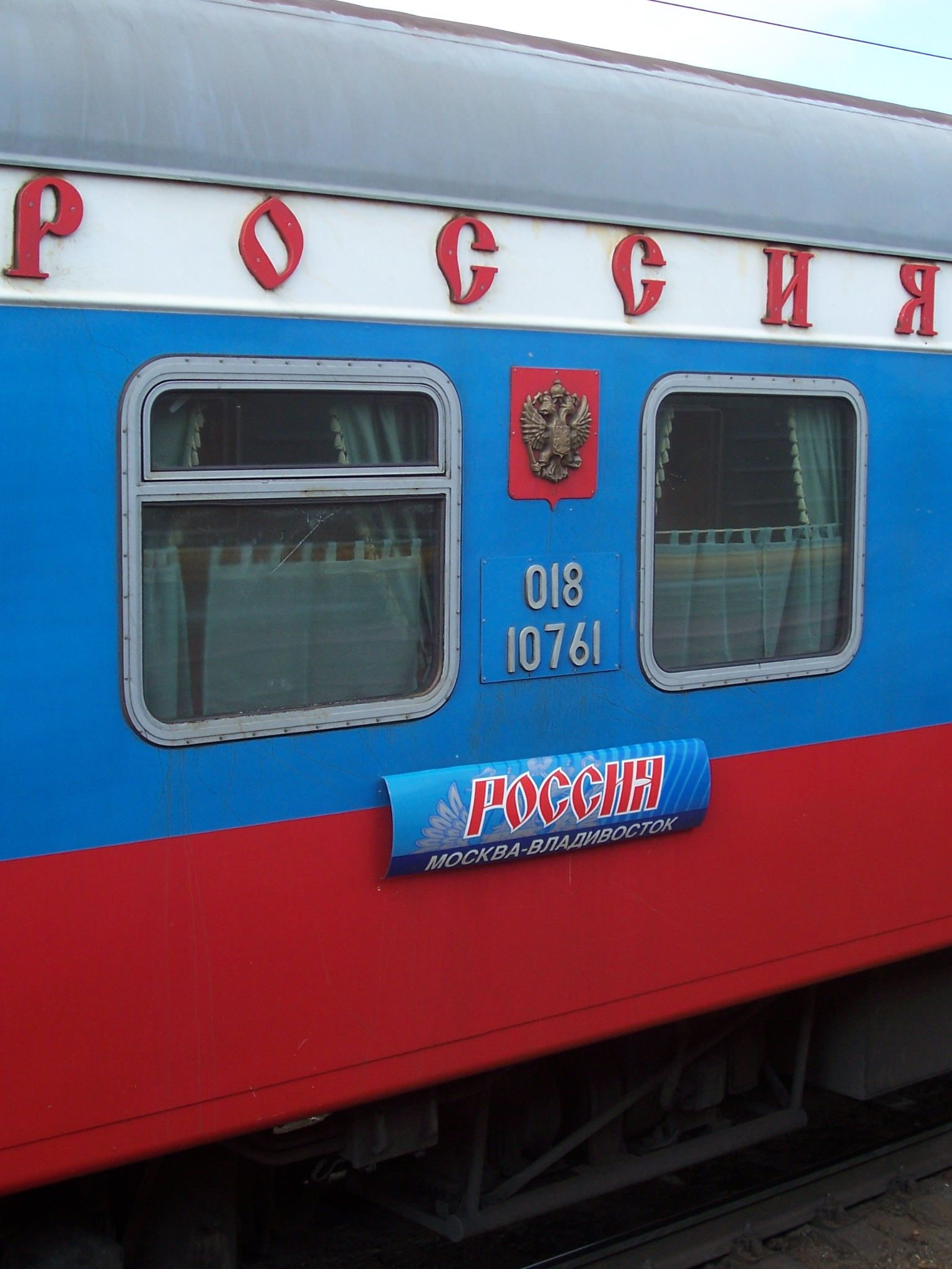 The "Rossija", the express-train that runs between Moscow and Vladivastok on the Transsiberian railway. Taken picture myself: public domain.